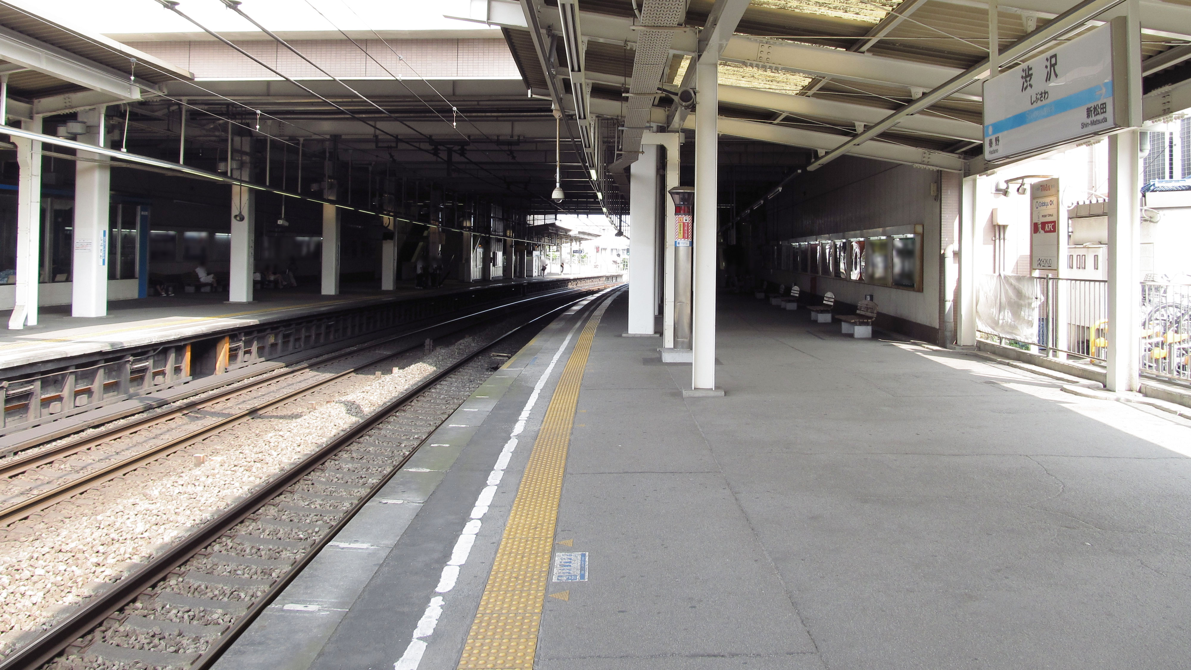 The platforms at Shibusawa Station on the Odakyū Electric Railway Odawara Line in Hadano city, Kanagawa, Japan